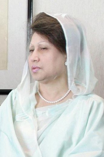 The prime minister of Bangladesh (1991-1996/2001-2006) Khaleda Zia